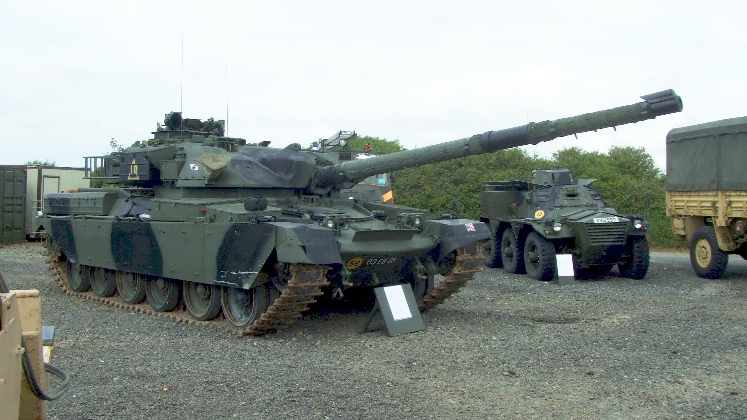 Vickers Fv 4201 Chieftain Mk.X Main Battle Tank with 120mm gun at the North Cornwall Tank Collection, Dinscott, 05/07.